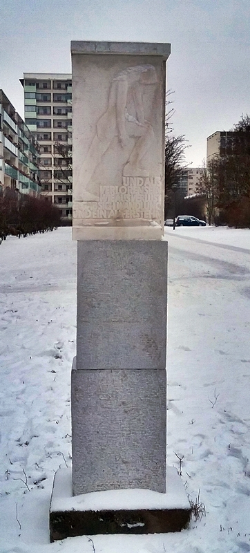 Commemorative Stele Werner Steinbrinck